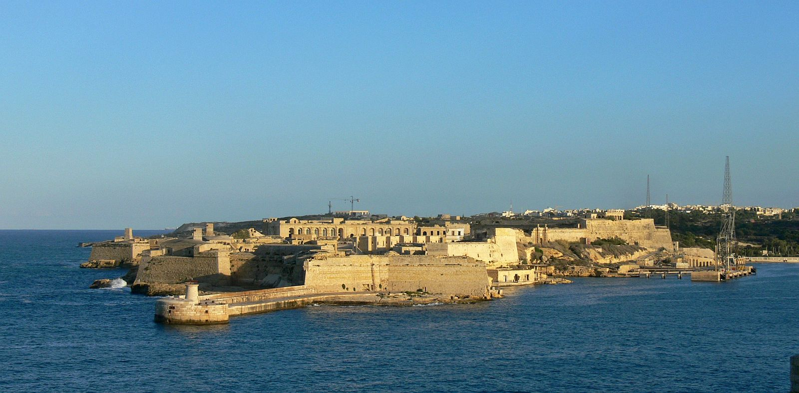 Fort Ricasoli (Kalkara, Malta) as seen from Valletta